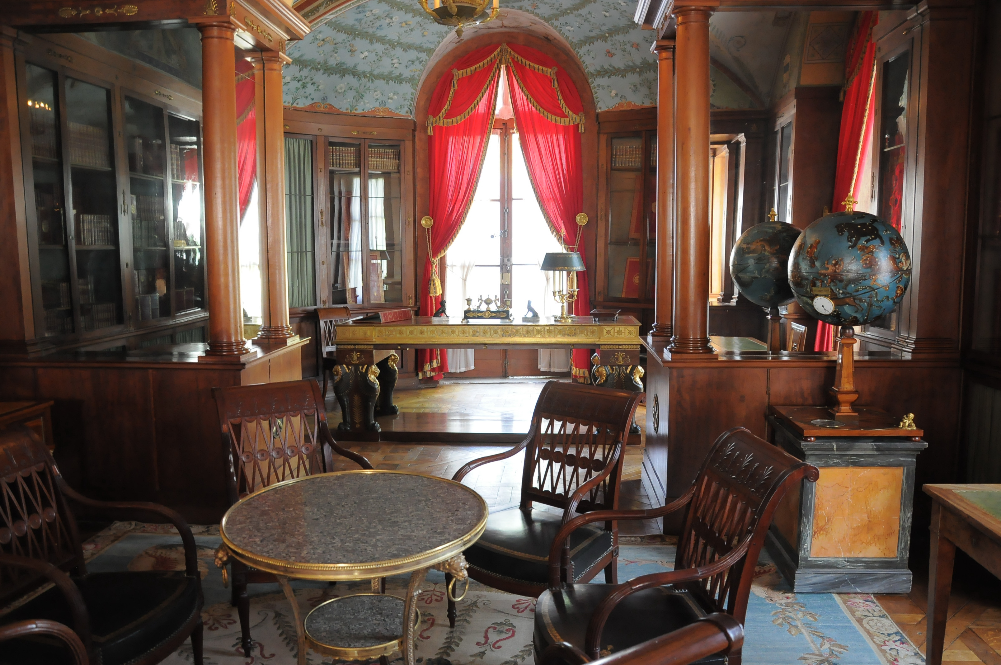 Library of the Château de Malmaison in Rueil-Malmaison, France. Situated in a wing built in 1687, the library was fitted out in 1800 by Charles Percier and Pierre-François-Léonard Fontaine for Napoleon Bonaparte.